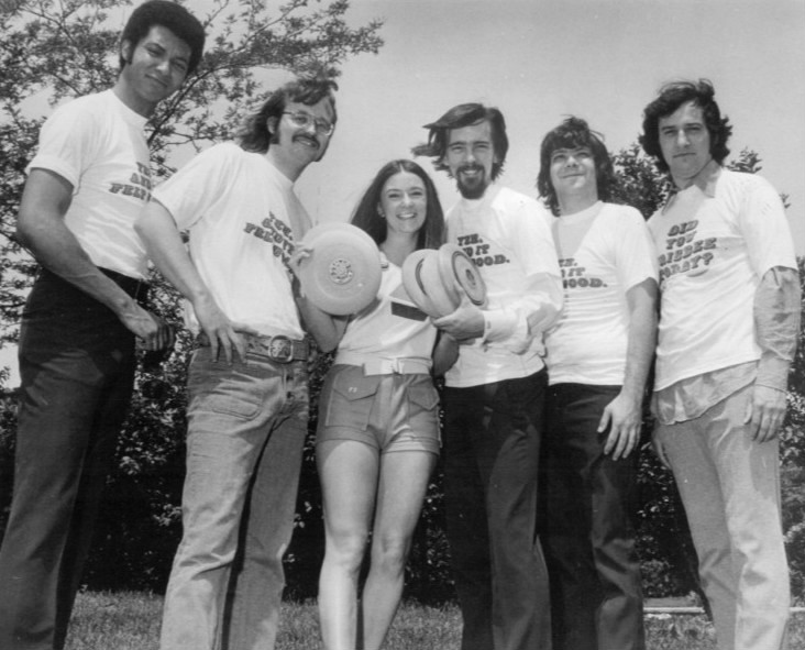 Publicity photo of the WLS Radio disk jockeys in 1972. From left: Bill Bailey, Chuck Knapp, Charlie Van Dyke. Fred Winston, and John Record Landecker.